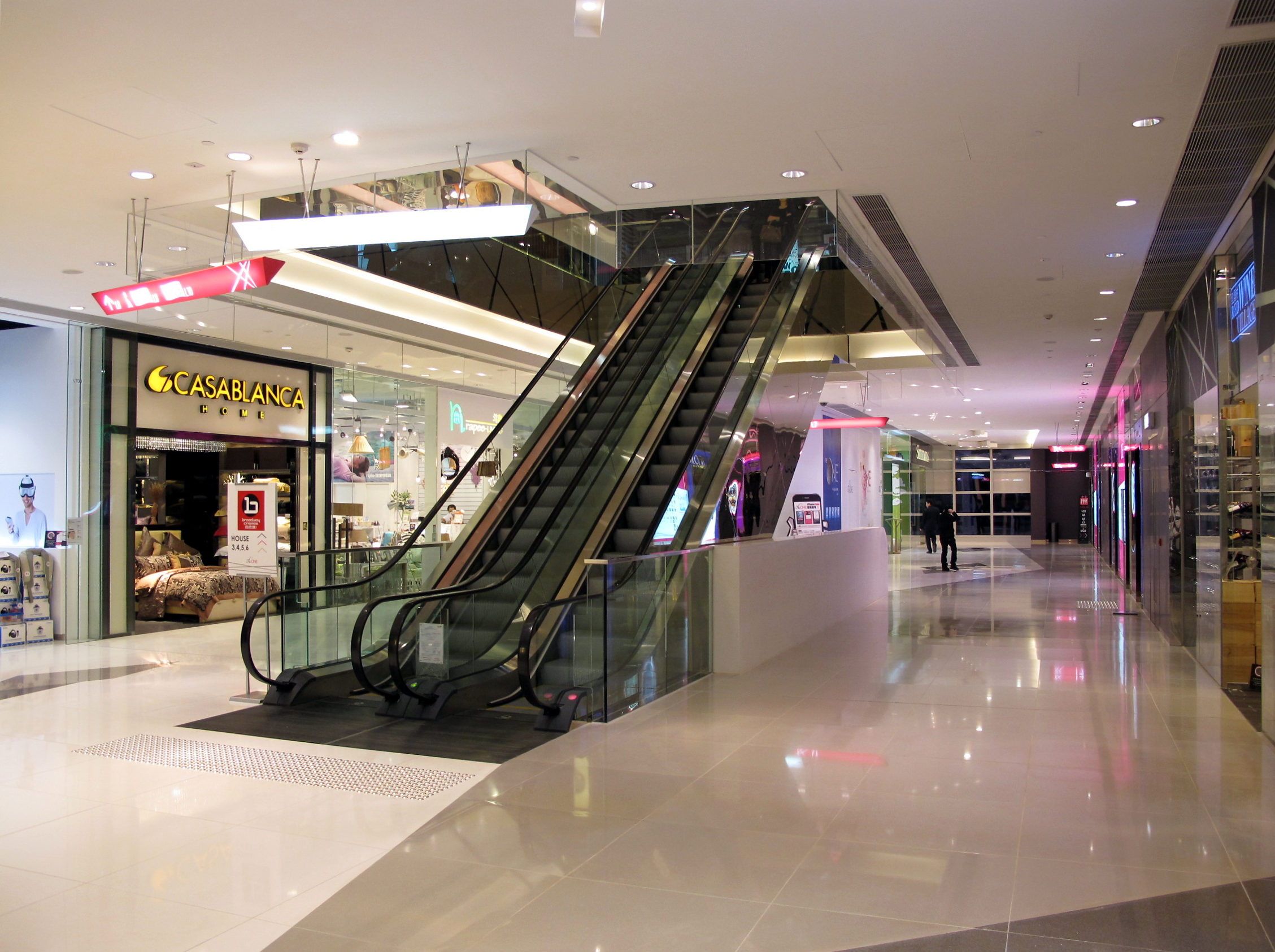 HK The ONE